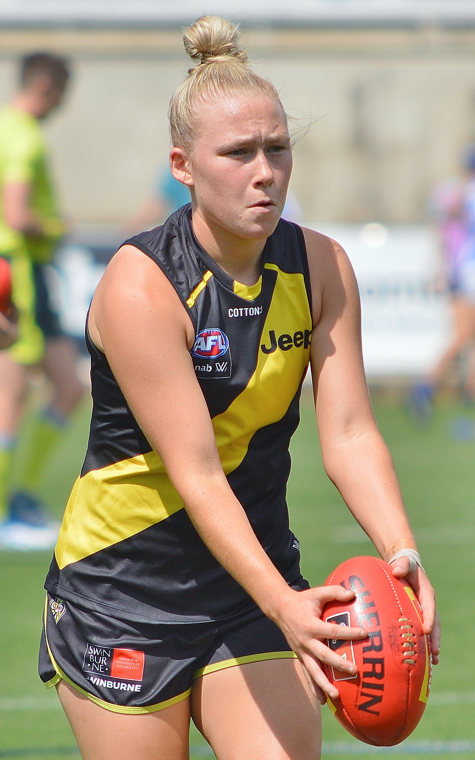 Kodi Jacques with Richmond during the round 3, 2020 AFL Women's match against North Melbourne at Ikon Park.